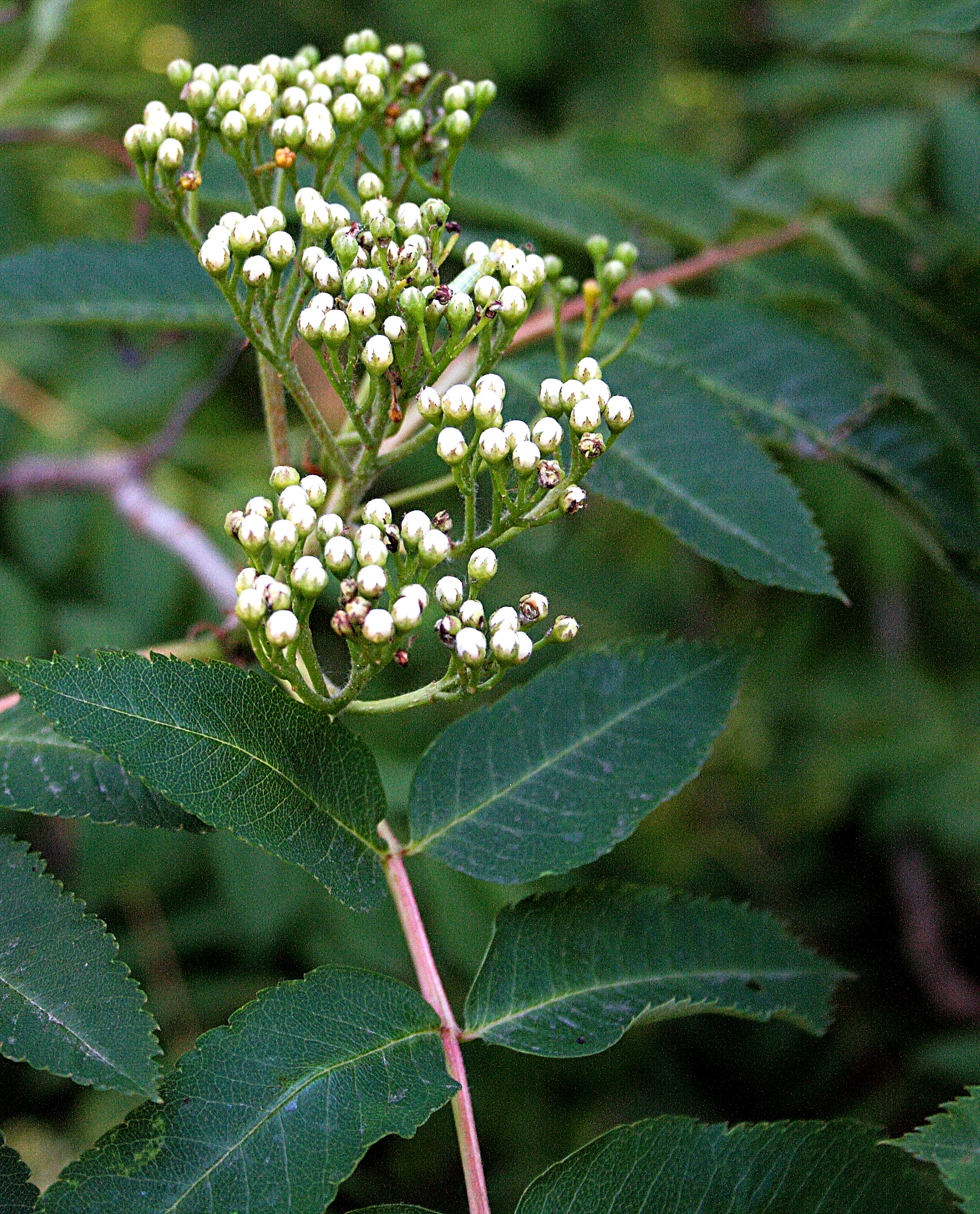 Ísland, Akureyri Botanical Gardens: Showy_mountain-ash_(Sorbus_decora)